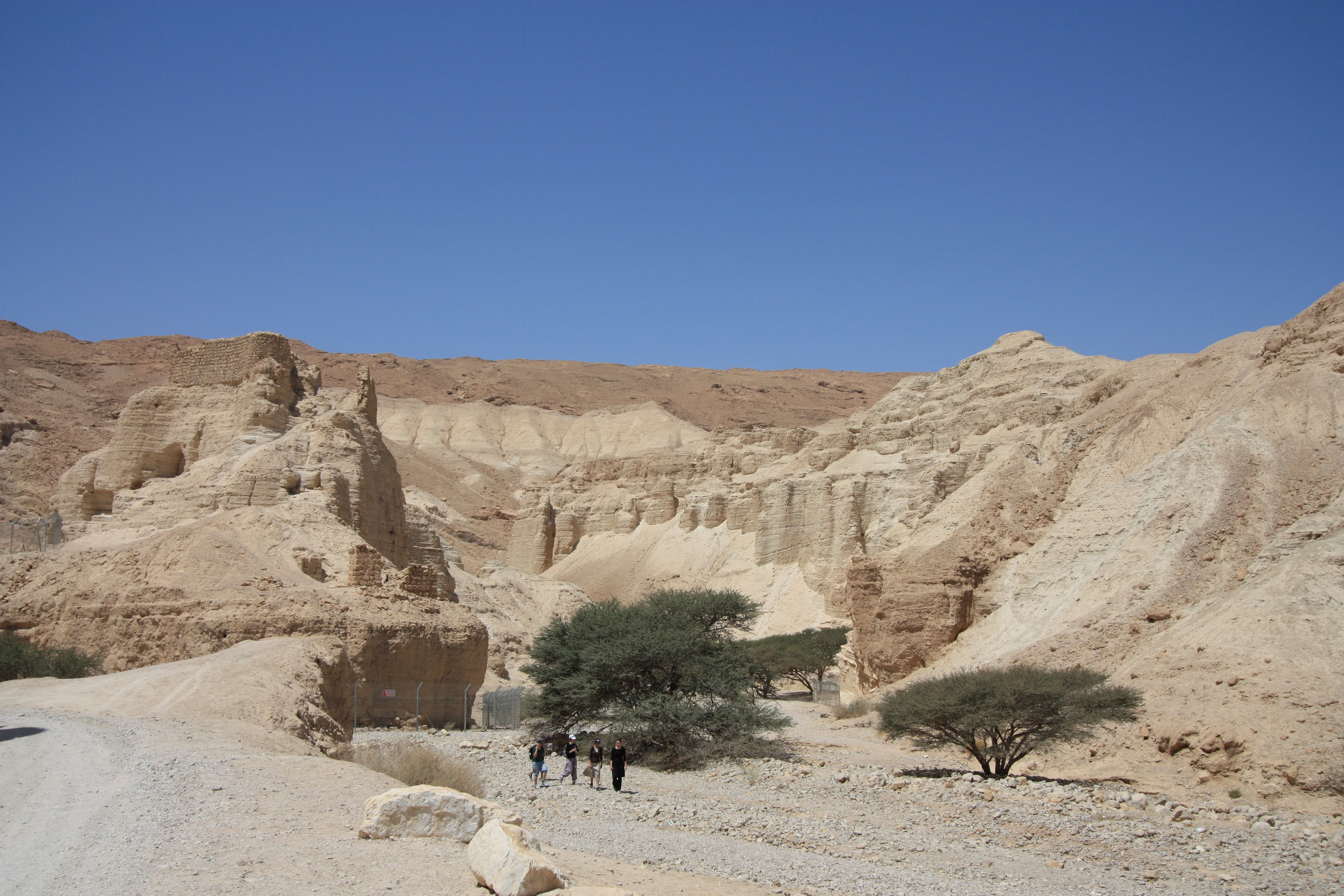 nahal zohar